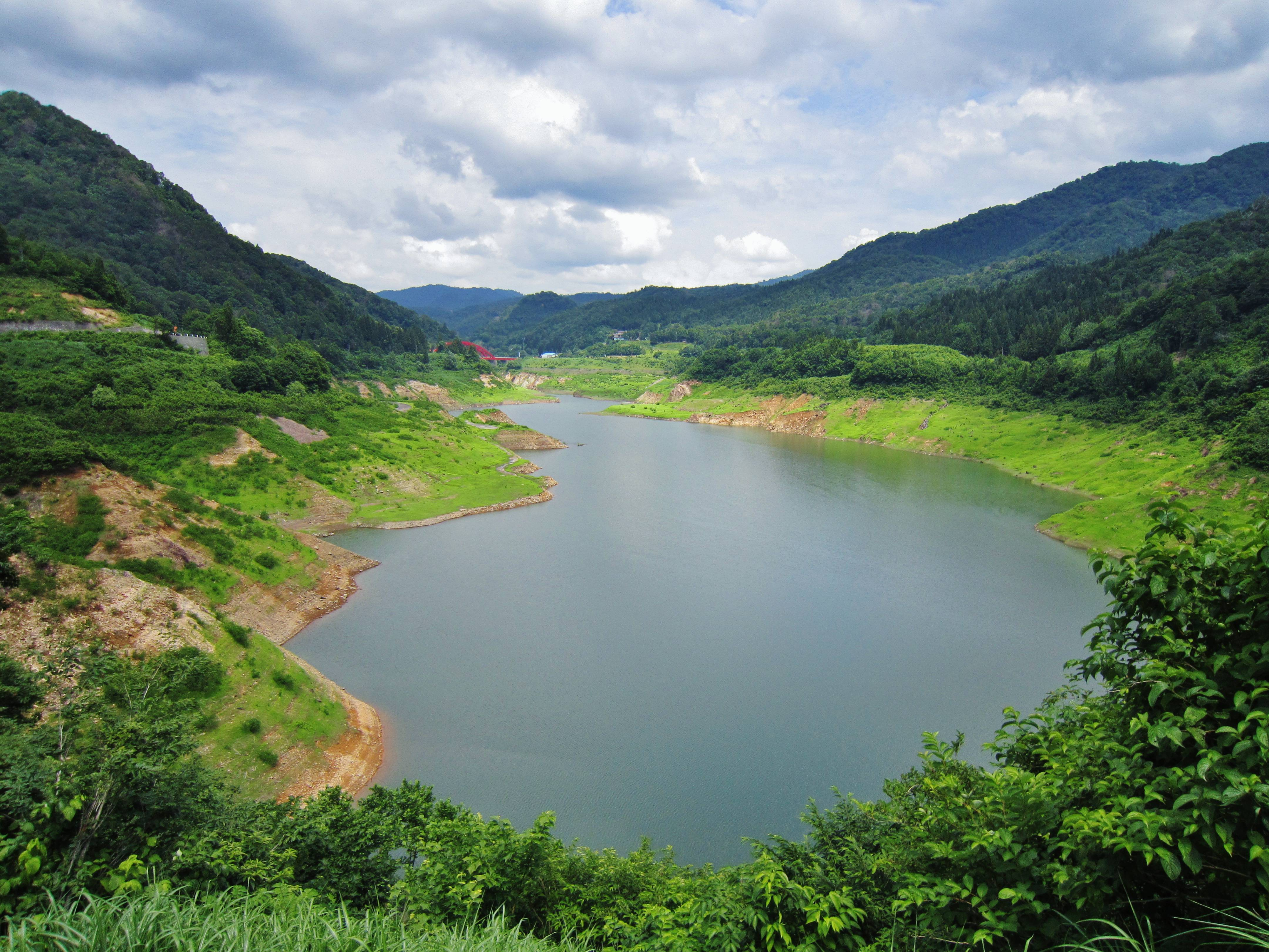 Aburumagawa Dam.